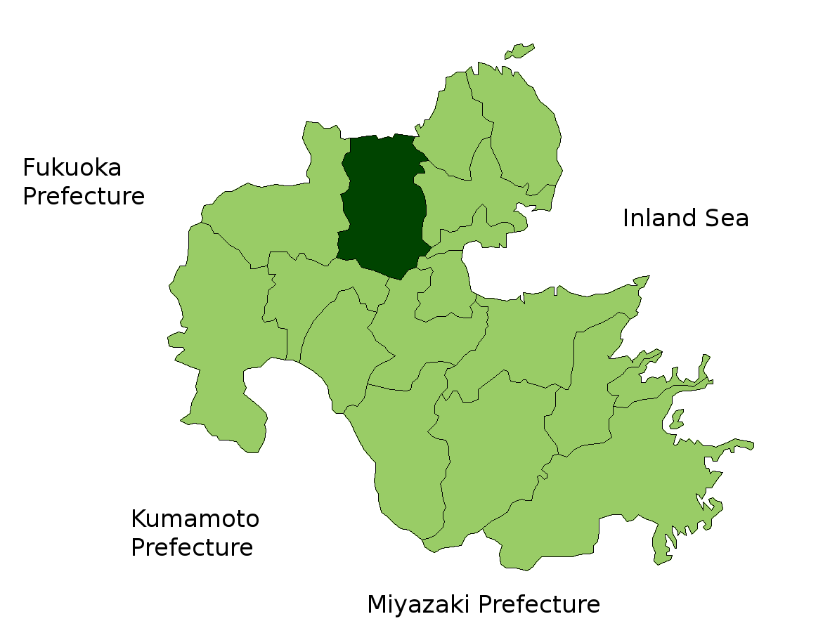 Location Map of Usa in Oita Prefecture, Japan